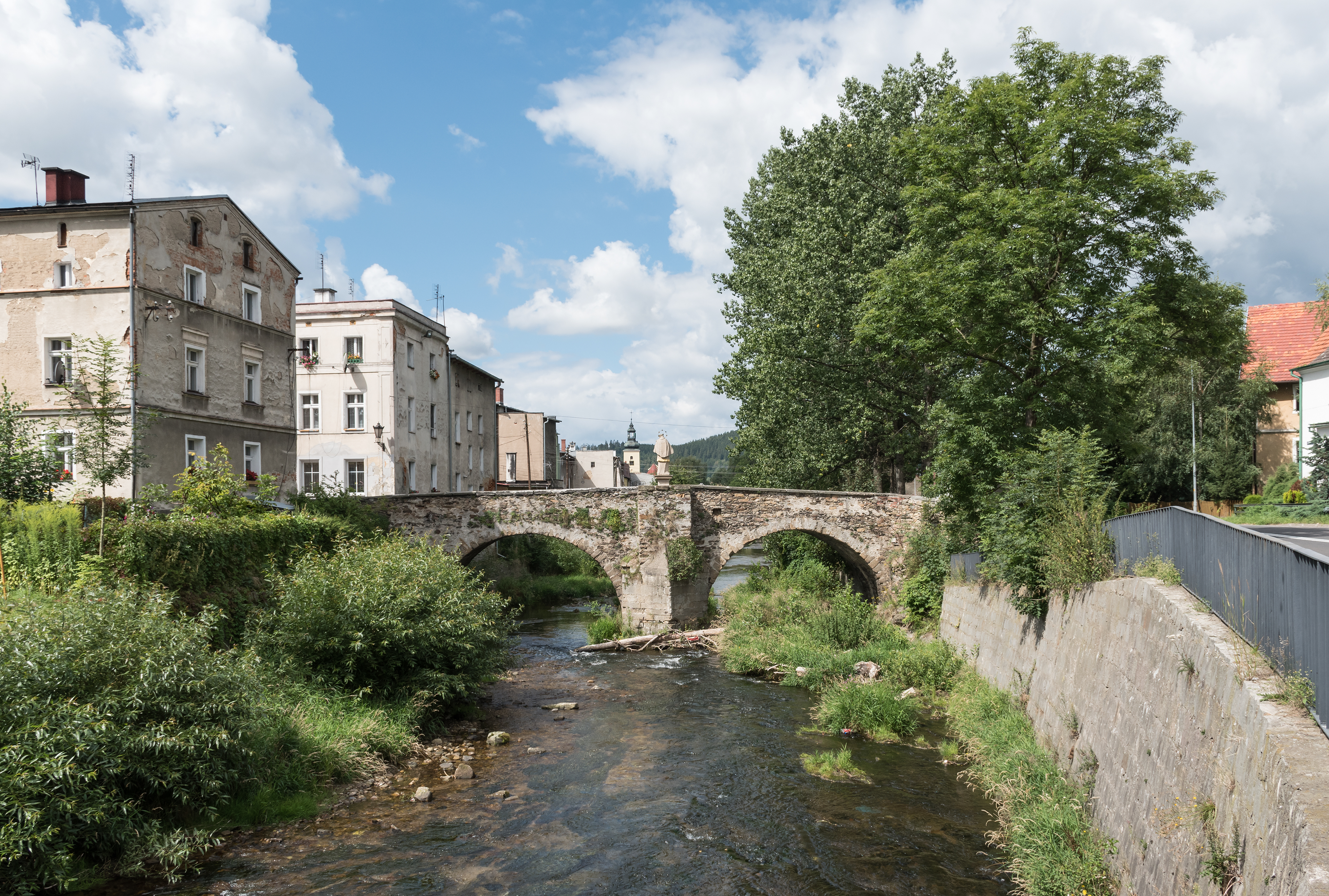 Gothic Bridge in Lądek-Zdrój